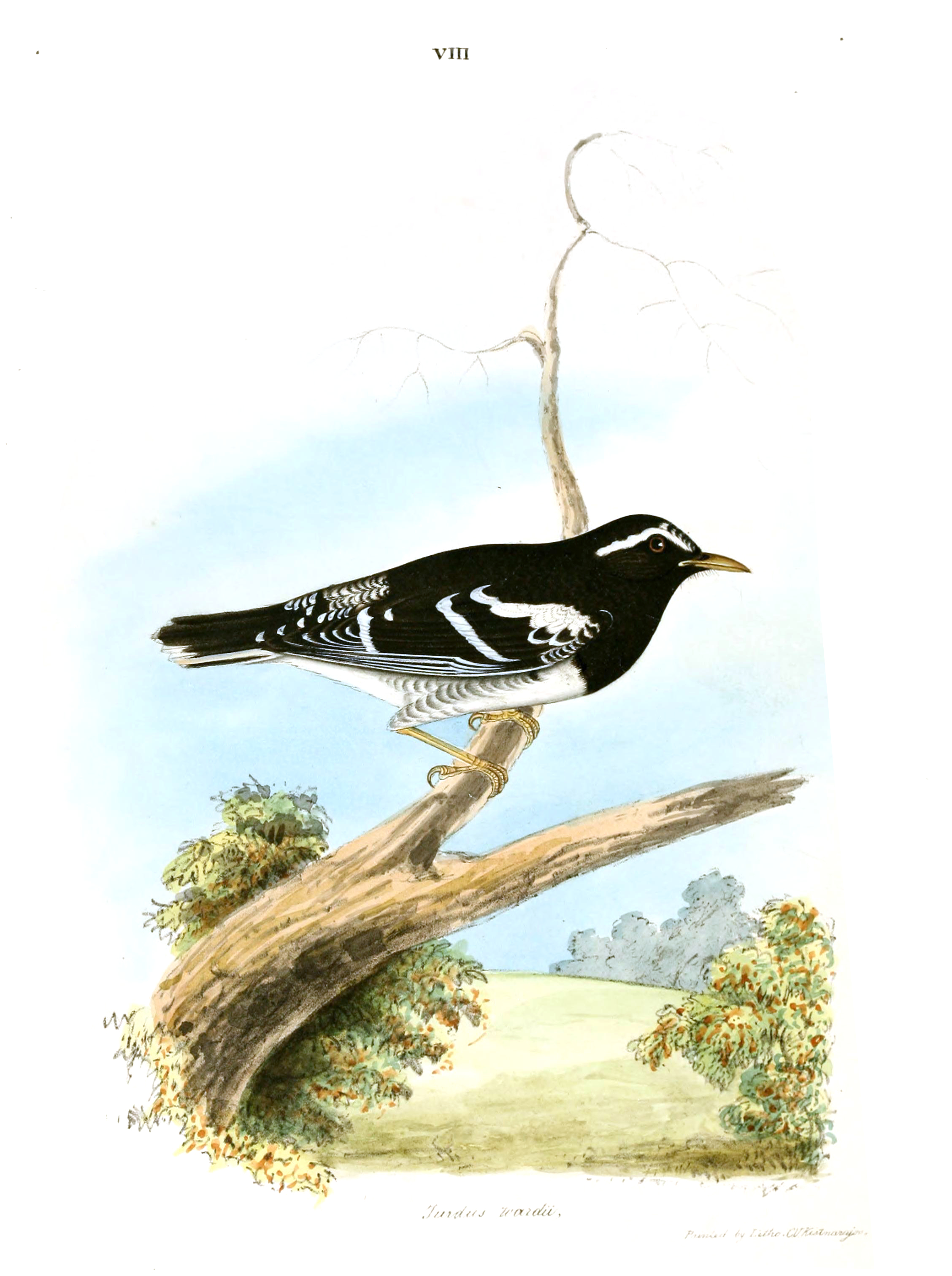 Zoothera wardii plate VIII; C. Jerdon; 1847; Illustrations of Indian Ornithology, Madras. Artist was probably from Trichinopoly. Lithography by C V Kistnarajoo